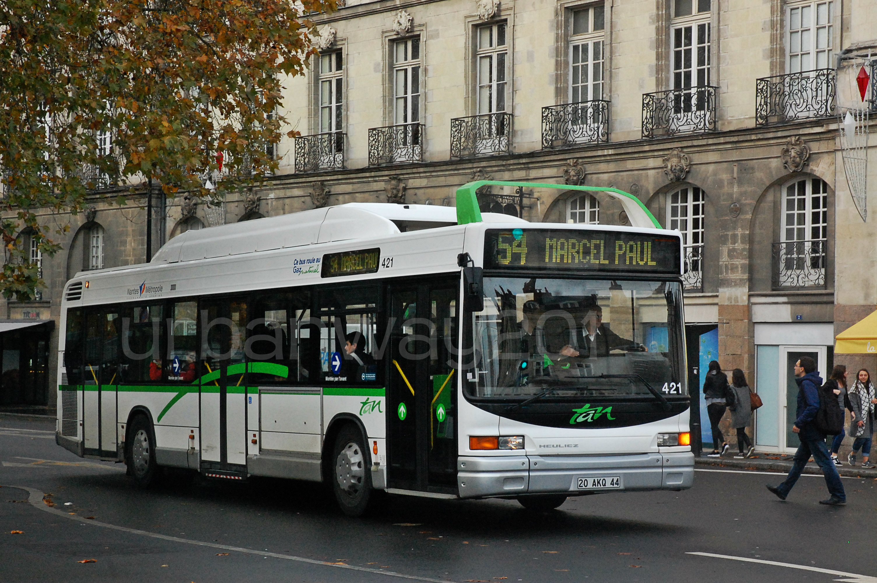 Heuliez GX 217 GNV n°421 du réseau TAN